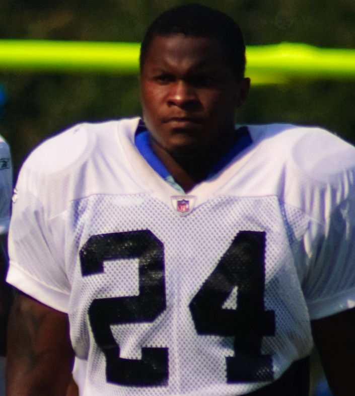 A morning at the Carolina Panther's Training Camp at Wofford College in Spartanburg, S.C. on 8/10/2009